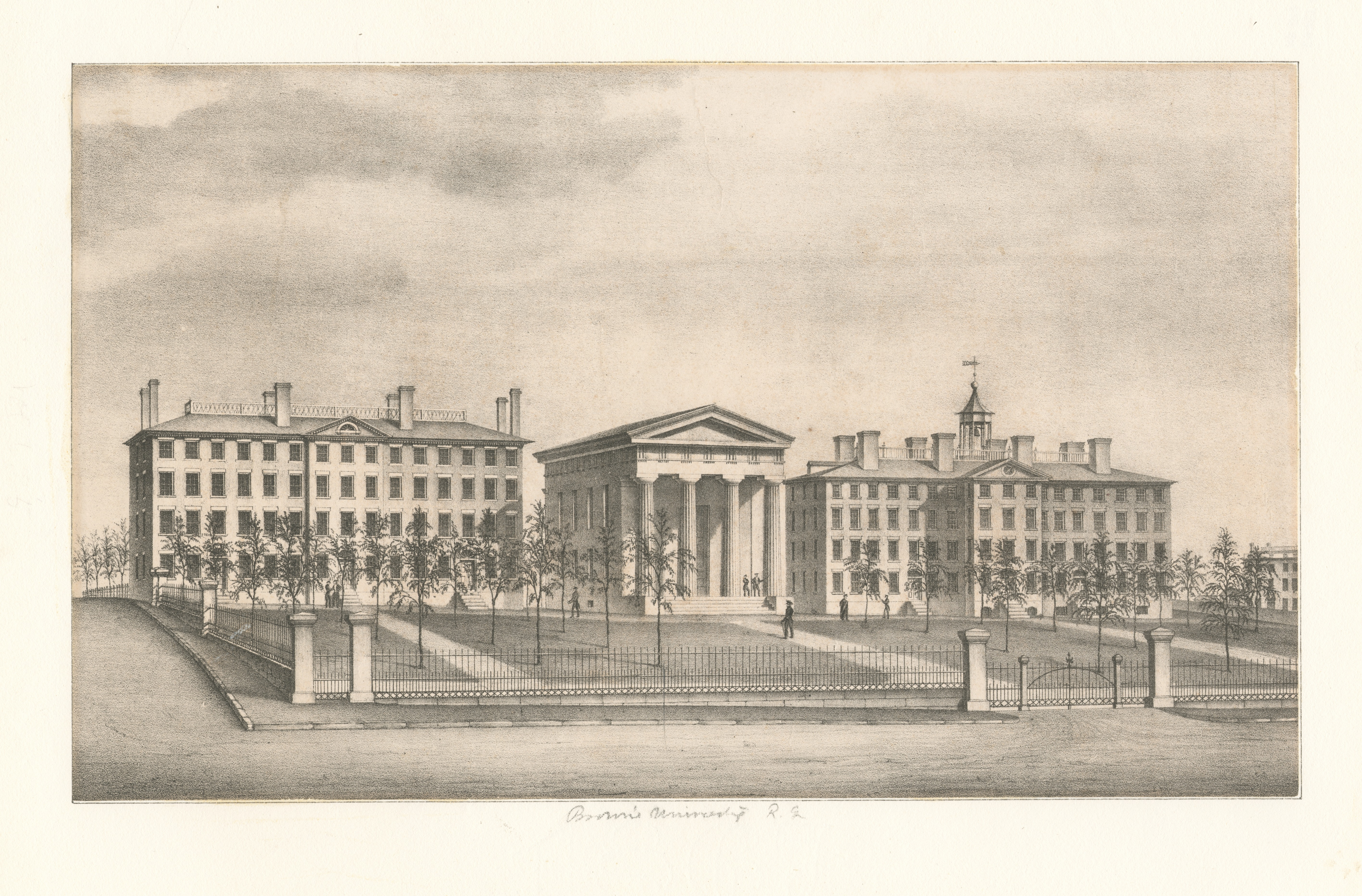 EM2349